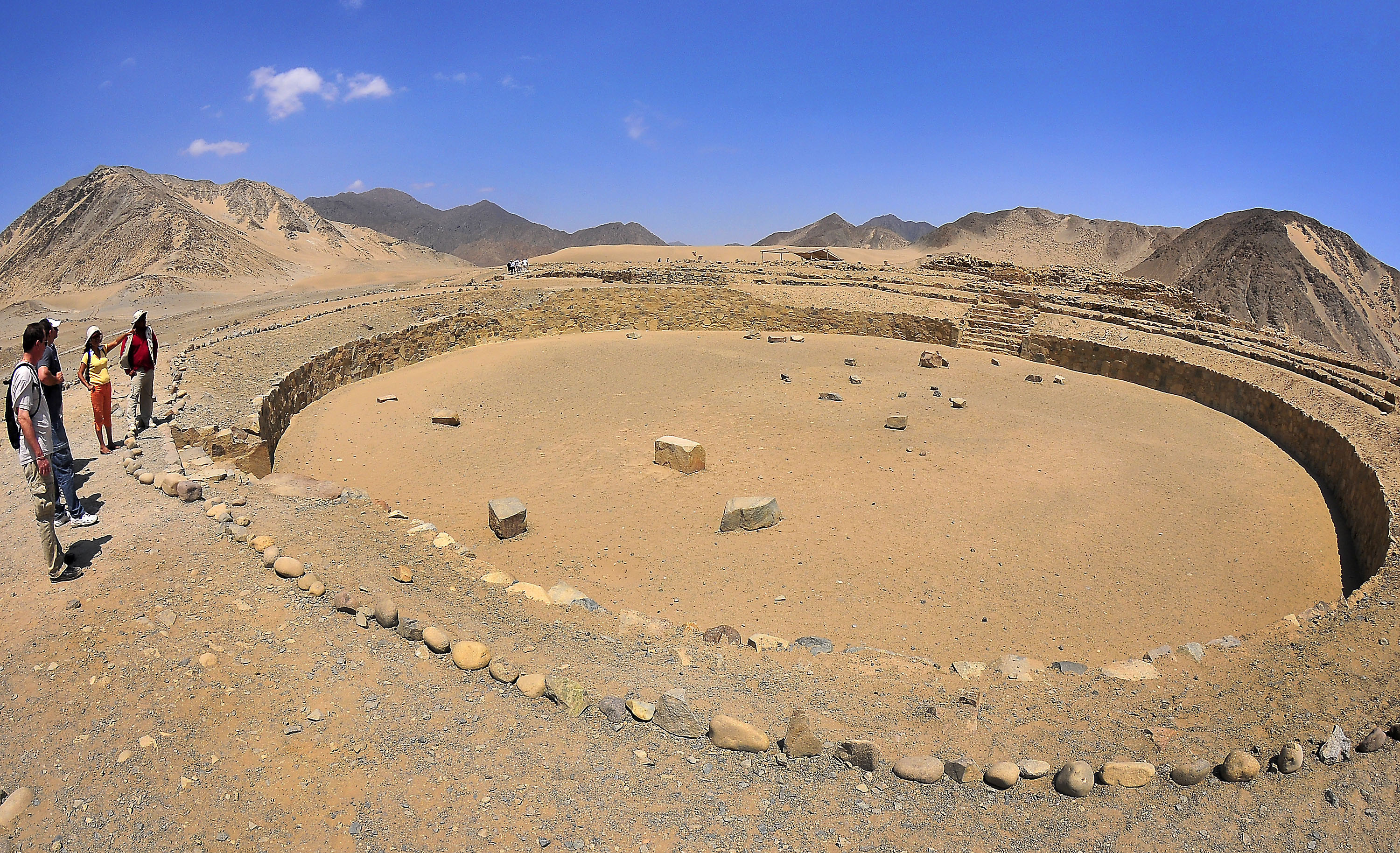 Sailors from the guided-missile cruiser USS Bunker Hill tour the ancient city of Caral, the oldest city in the western hemisphere, while on liberty during a port visit. Bunker Hill is supporting Southern Seas 2010, a U.S. Southern Command-directed operation that provides U.S. and international forces the opportunity to operate in a multi-national environment.